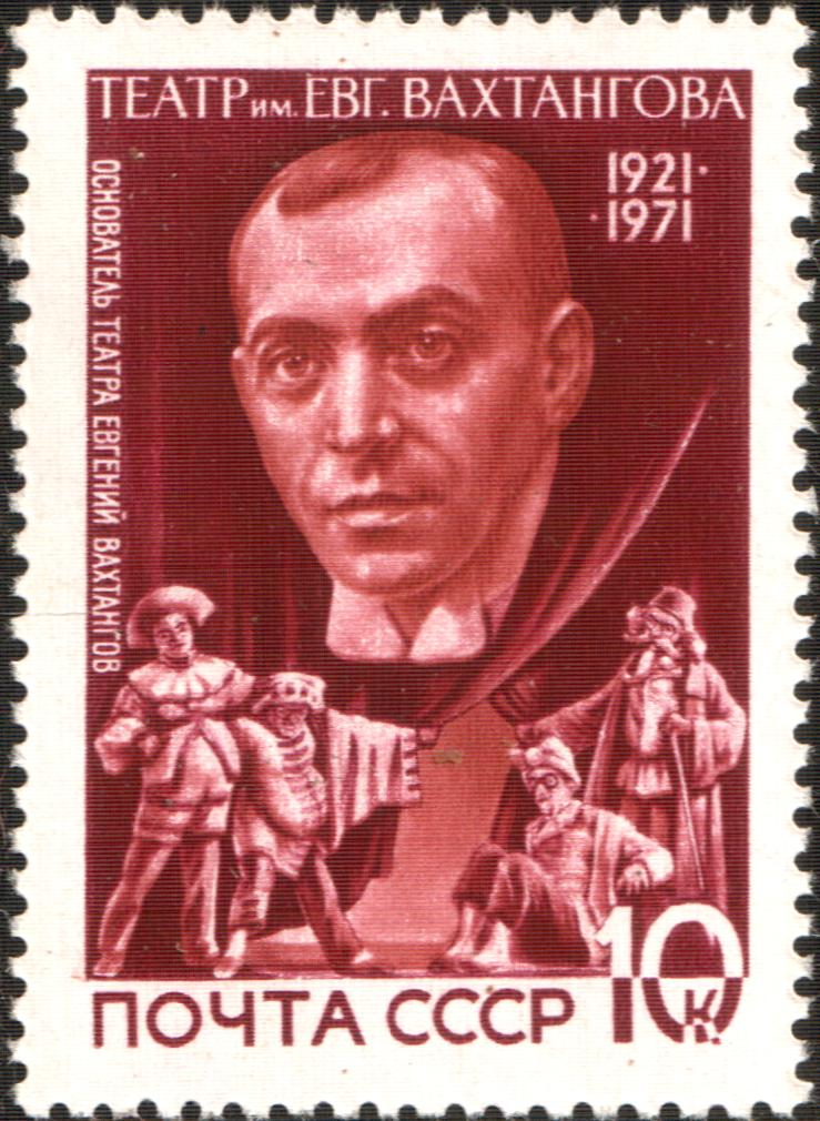 USSR stamp: Yevgeny Vakhtangov (Founder) and Characters from "Princess Turandot". Series: 50th Anniversary of Vakhtangov Theatre, Moscow